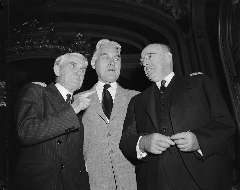 Title: Senators Arthur Capper, of Kansas, Henrik Shipstead, of Minn., Elbert D. Thomas of Utah to speak in Senate chambers on the neutrality question, Oct. 1939. Abstract/medium: 1 negative : glass ; 4 x 5 in. or smaller